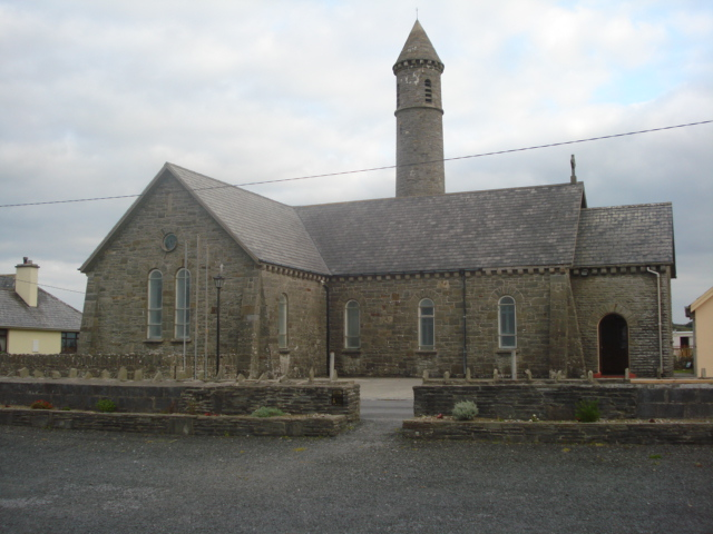 Quilty Church dedicated to Stella Mare. Built with funds donated by French people after the rescue of the crew of the Leon XIII